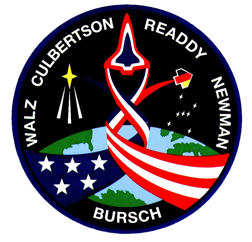 STS-51 Patch Designed by the crewmembers, the STS-51 crew patch honors all who have contributed to mission success. It symbolizes NASA's continuing quest to increase mankind's knowledge and use of space through this multi-faceted mission. The gold star represents the U.S. Advanced Communications Technology Satellite (ACTS) boosted by the Transfer Orbit Stage (TOS). The rays below the ACT\TOS represent the innovative communication technologies to be tested by this experiment. The stylized Shuttle Pallet Satellite (SPAS) represents the German-sponsored ASTRO\SPAS mission. The constellation Orion below SPAS is representative of the types of stellar objects to be studied by its experimenters. The stars in Orion also commemorate the astronauts who have sacrificed their lives for the space program. The ascending spiral, symbolizing America's continuing commitment to leadership in space exploration and development, originates with the thousands of persons who ensure the success of each Shuttle flight. The five large white stars, representing the five crewmembers, along with the single gold star, form the mission's numerical designation.